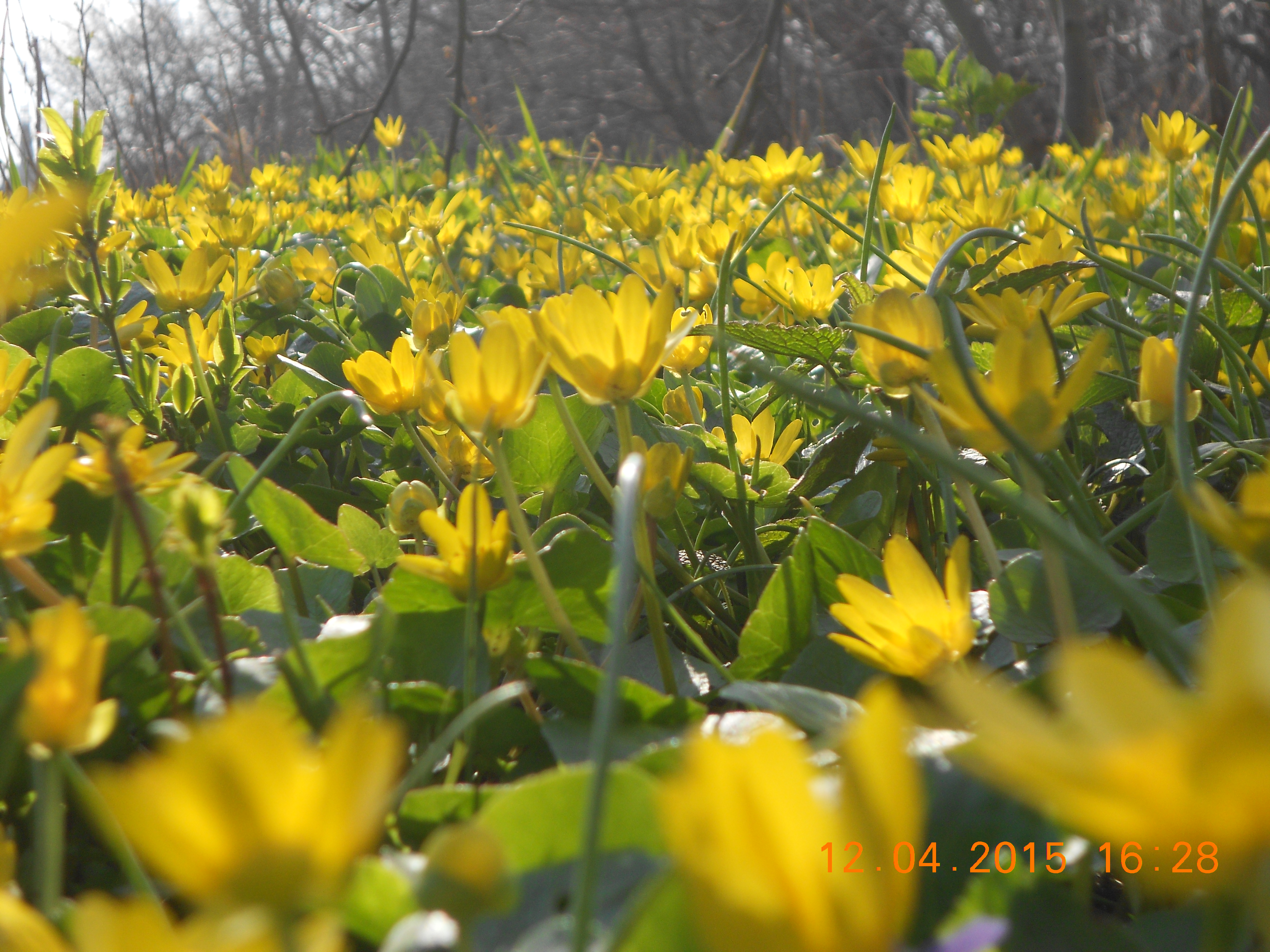 Caltha far from river Bilenka